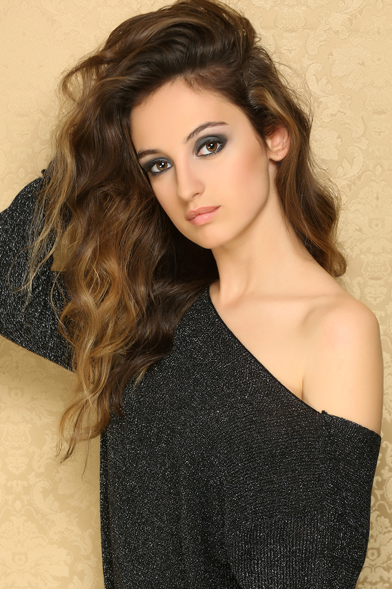 Actriz española